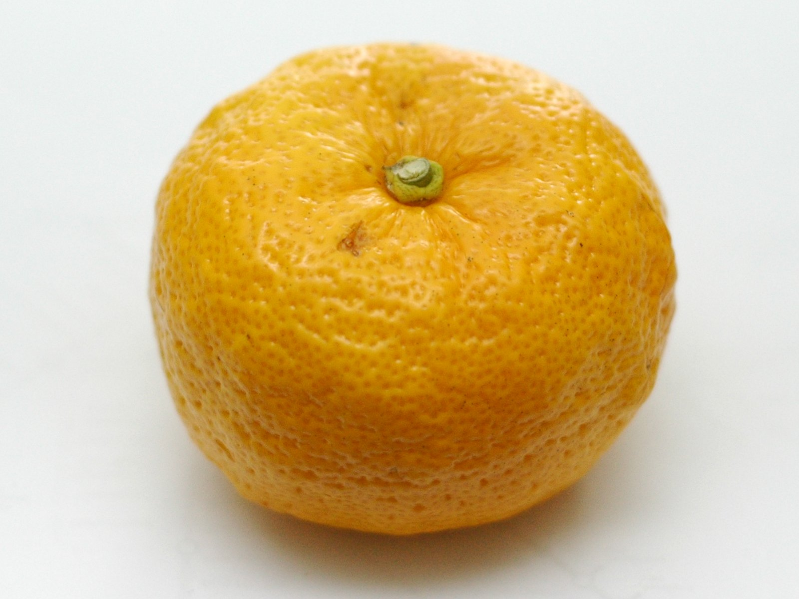 A large ripe Japanese Yuzu Citrus fruit.